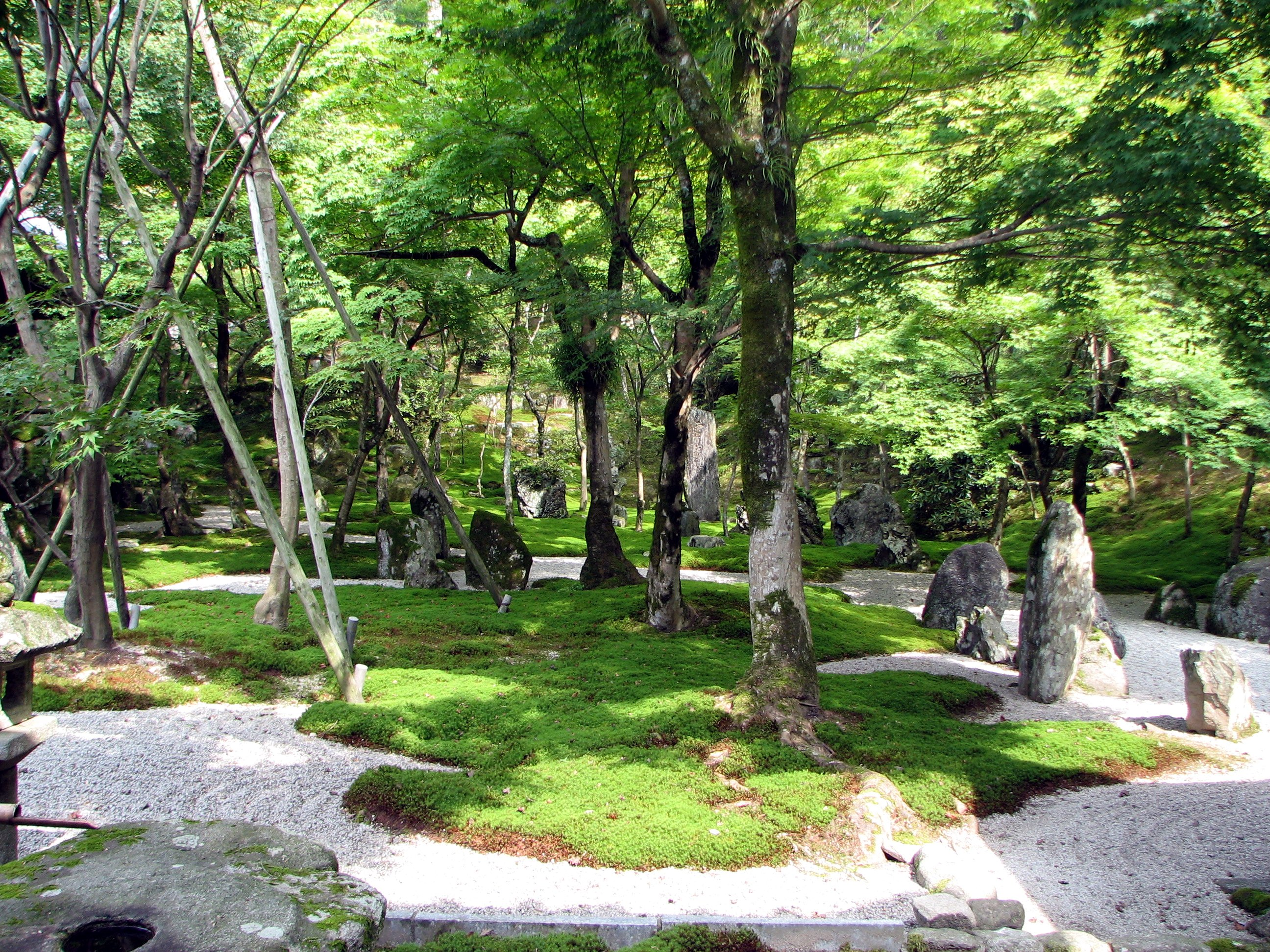 Zen stone garden at the Kōmyōzen-ji temple in Dazaifu, Fukuoka prefecture.